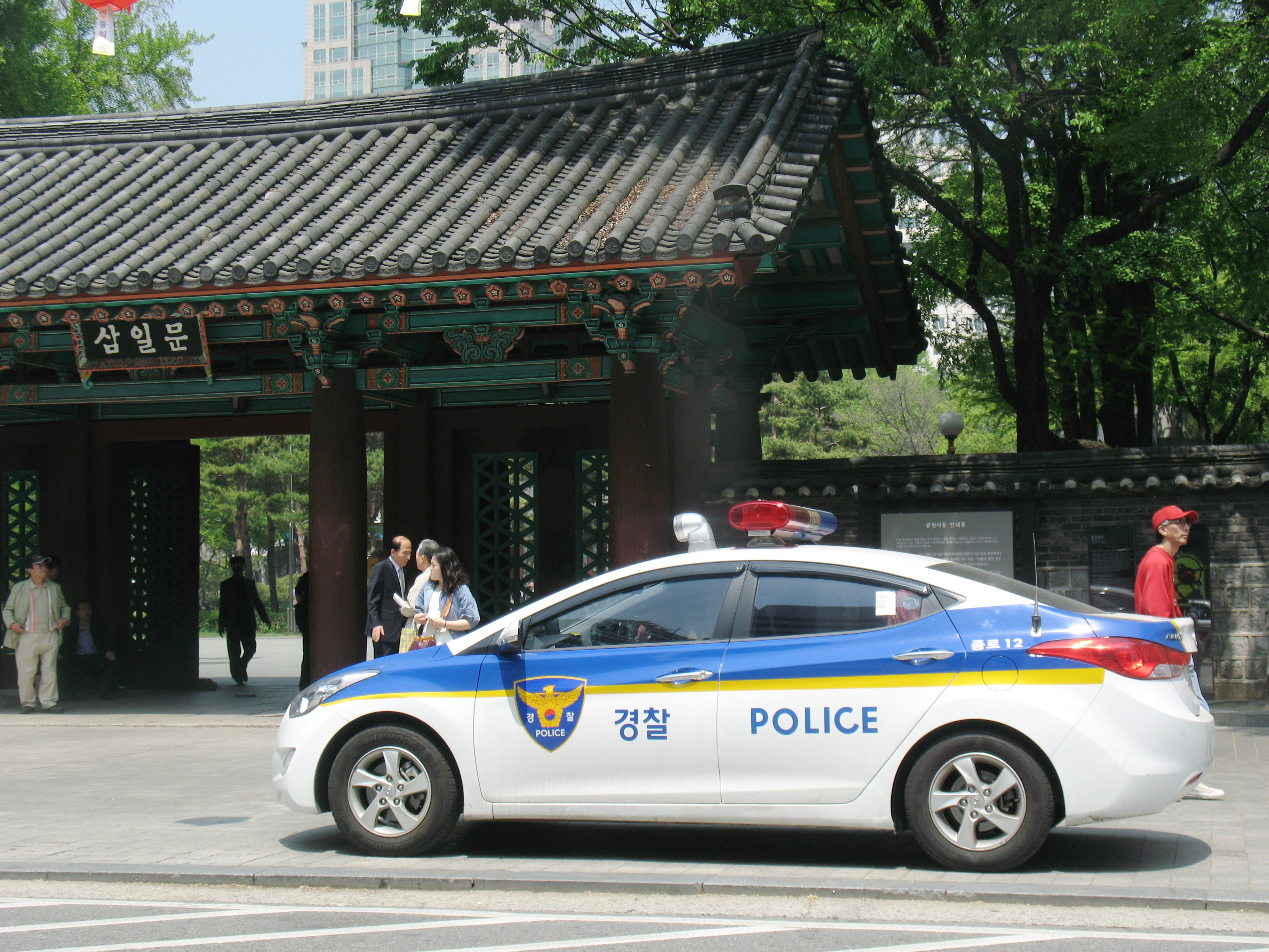 Police car in Seoul, South Korea